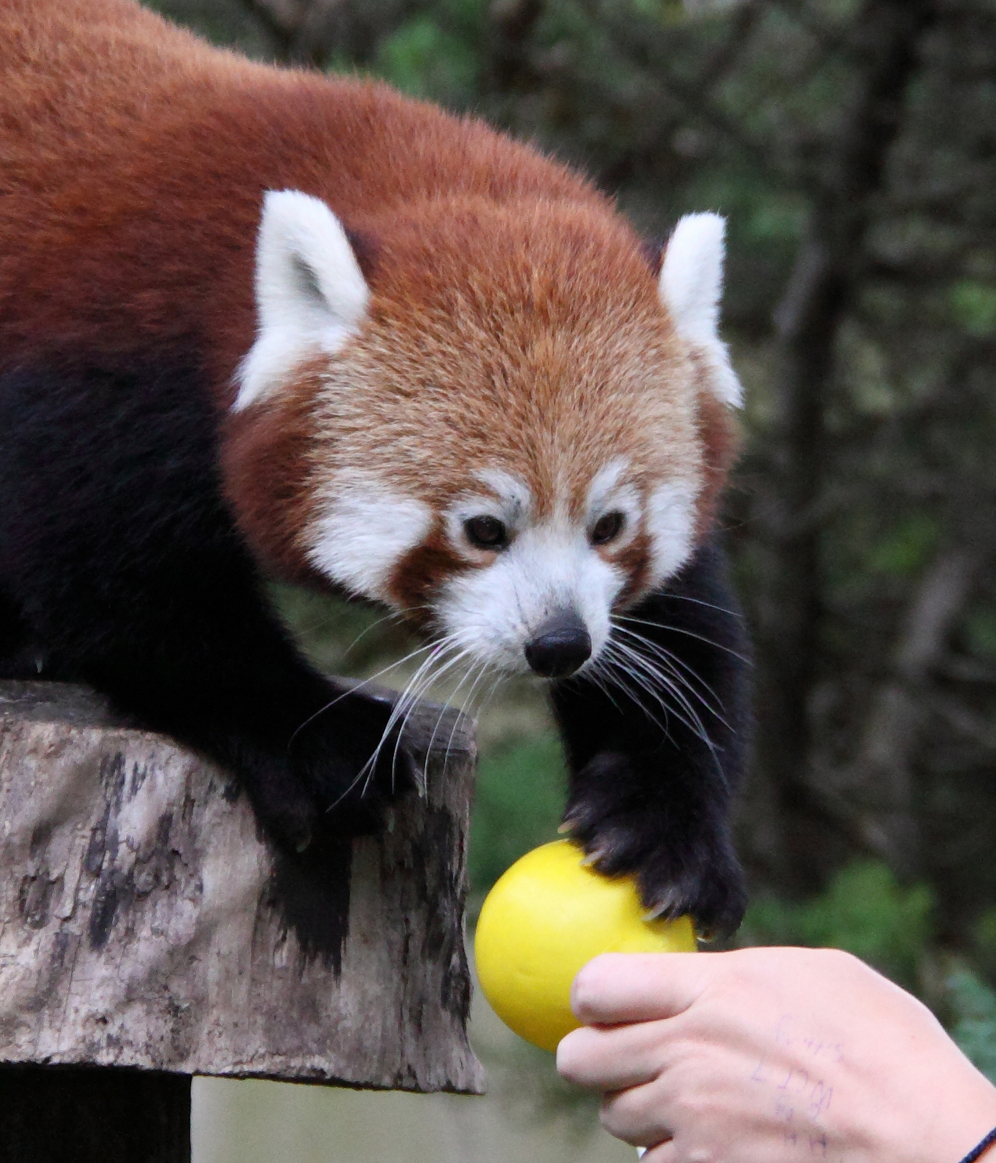 This is a Red Panda called Lang Za, a male, who is pictured during some training at Paradise Park in Hayle in Cornwall in July 2010. The training is to help ensure he trust his keeper so that when a vet needs so see him up close, check his teeth, paws etc. or maybe give him an injection, he will already be used to the procedures.